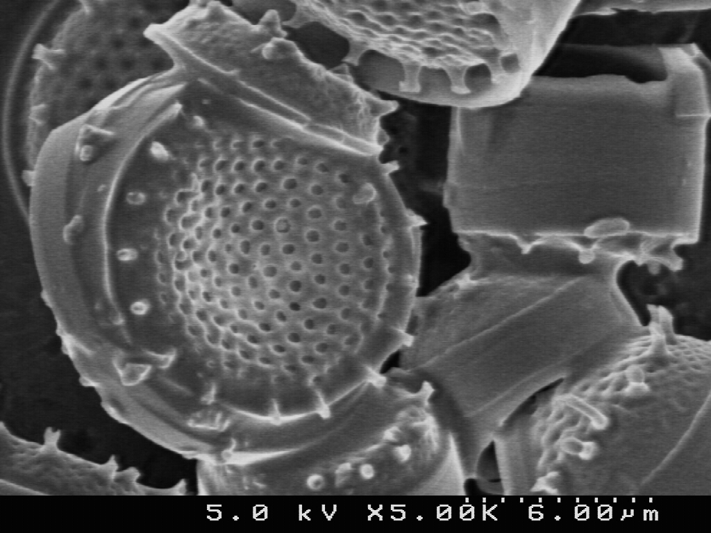 SEM photo of Diatoms with 5000 X magnification